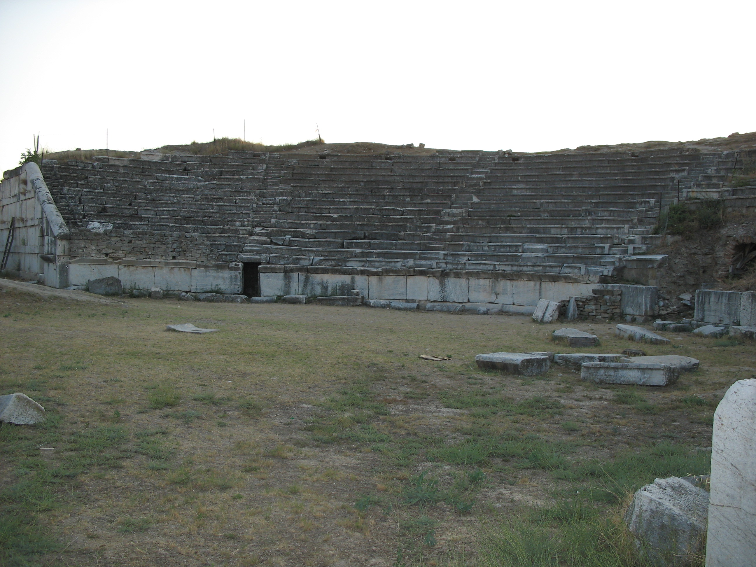 Stobi Amphitheatre